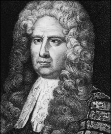 Sir John Trevor (1637-1717) by William Bond (after Joseph Allen's stipple engraving)